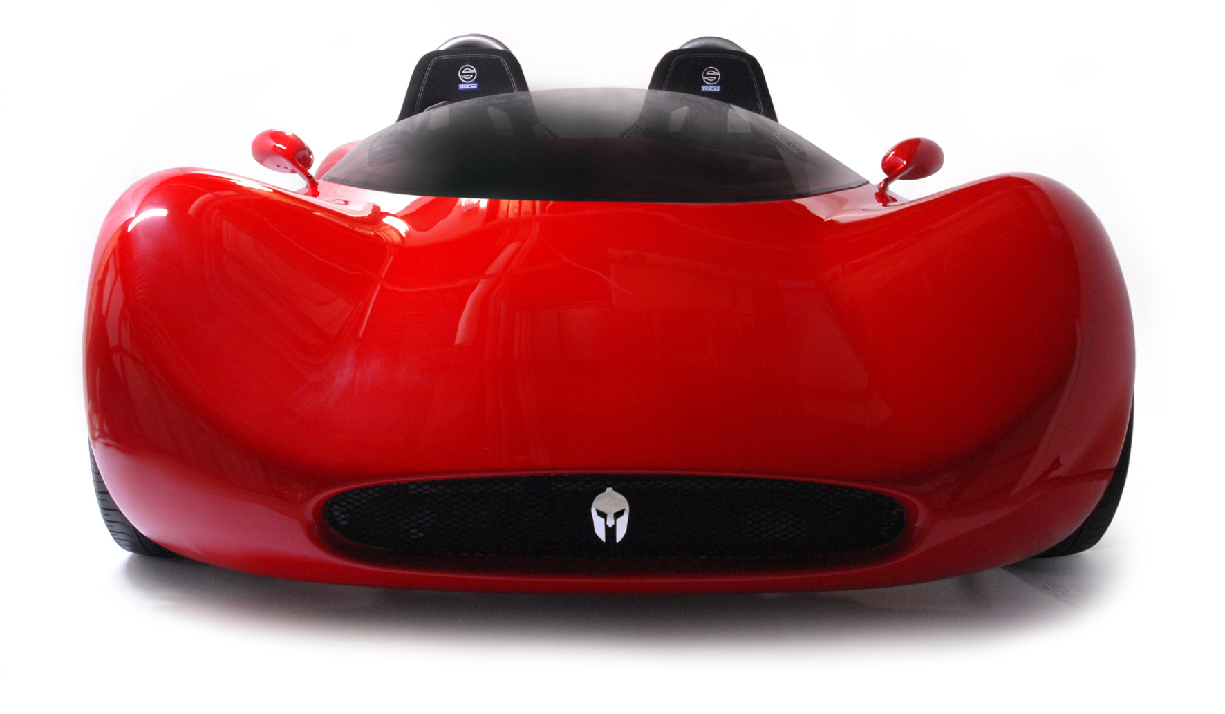 Spartan-V sports car rear view